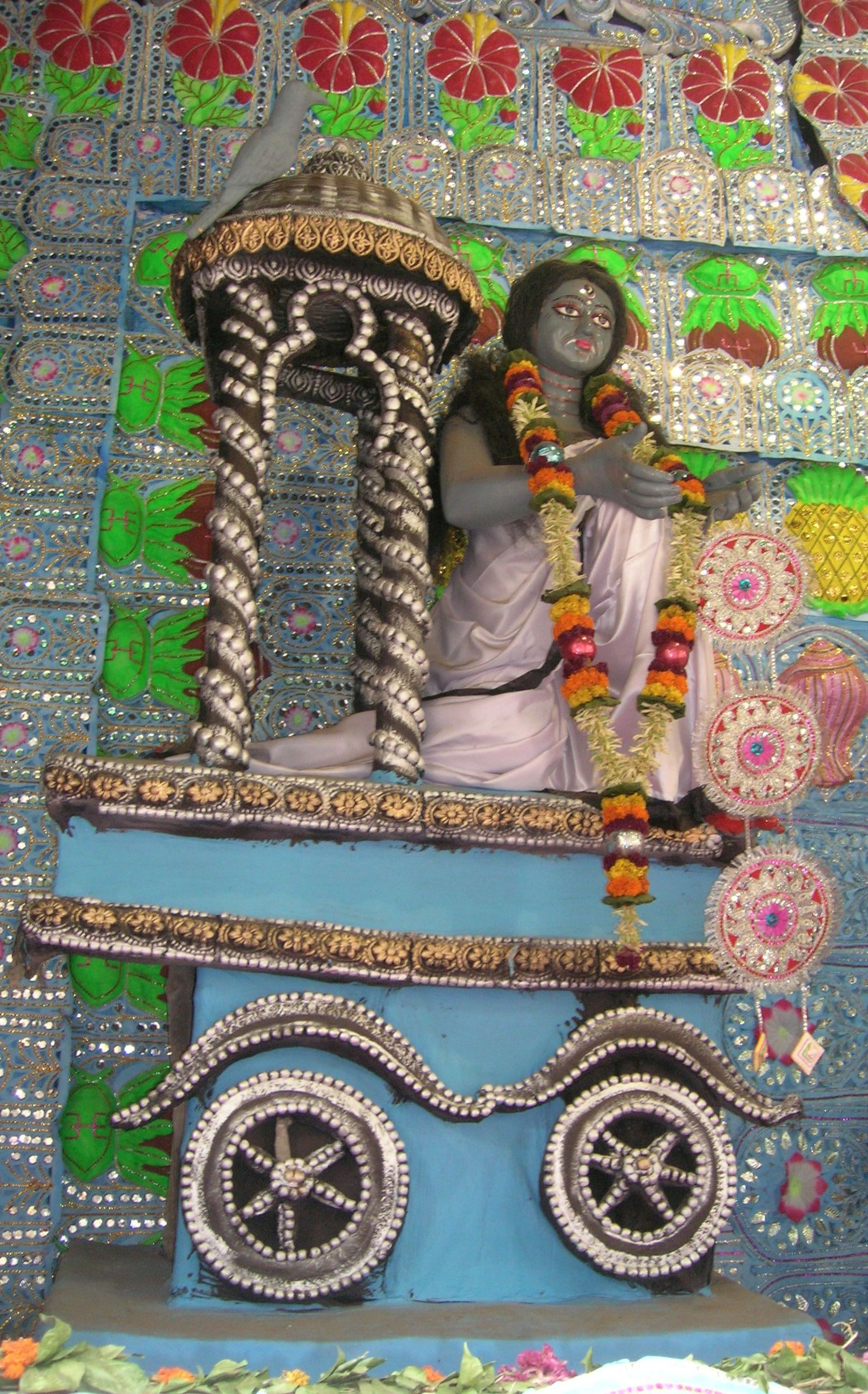 Dhumabati at Janbajar Sammilito Kali Puja Samiti pandal, Kolkata.